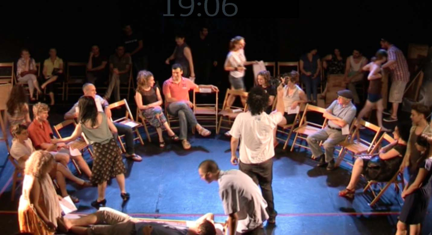 Still image from a performance by Einat Amir